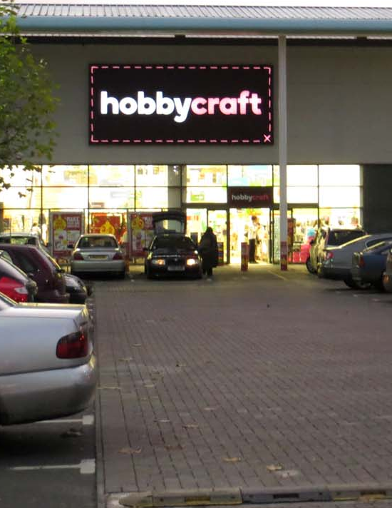 Hobbycraft in the Wycombe Retail Park